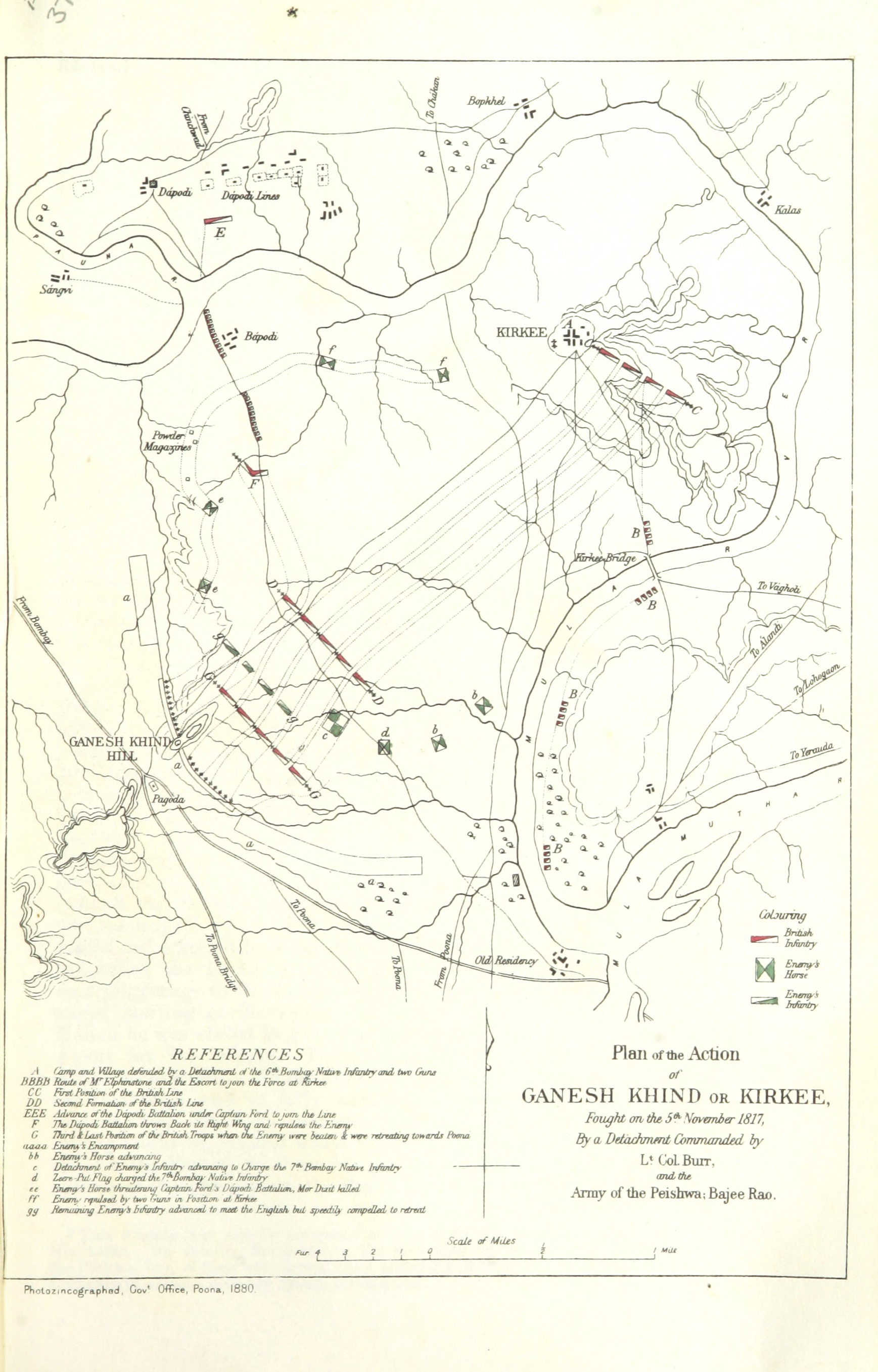 View this map on the BL Georeferencer service. Image taken from: Title: "Gazetteer of the Bombay Presidency. [Edited by Sir James M. Campbell. General index, by R. E. Enthoven.]", "Miscellaneous Official Publications" Contributor: Campbell, James M. (James Macnabb) - Sir Contributor: ENTHOVEN, Reginald Edward. Shelfmark: "British Library HMNTS 10055.g.", "British Library HMNTS 10055.h." Volume: 23 Page: 399 Place of Publishing: Bombay Date of Publishing: 1896 Issuance: monographic Identifier: 000403057 Explore: Find this item in the British Library catalogue, 'Explore'. Open the page in the British Library's itemViewer (page image 399) Download the PDF for this book Image found on book scan 399 (NB not a pagenumber)Download the OCR-derived text for this volume: (plain text) or (json) Click here to see all the illustrations in this book and click here to browse other illustrations published in books in the same year. Order a higher quality version from here.